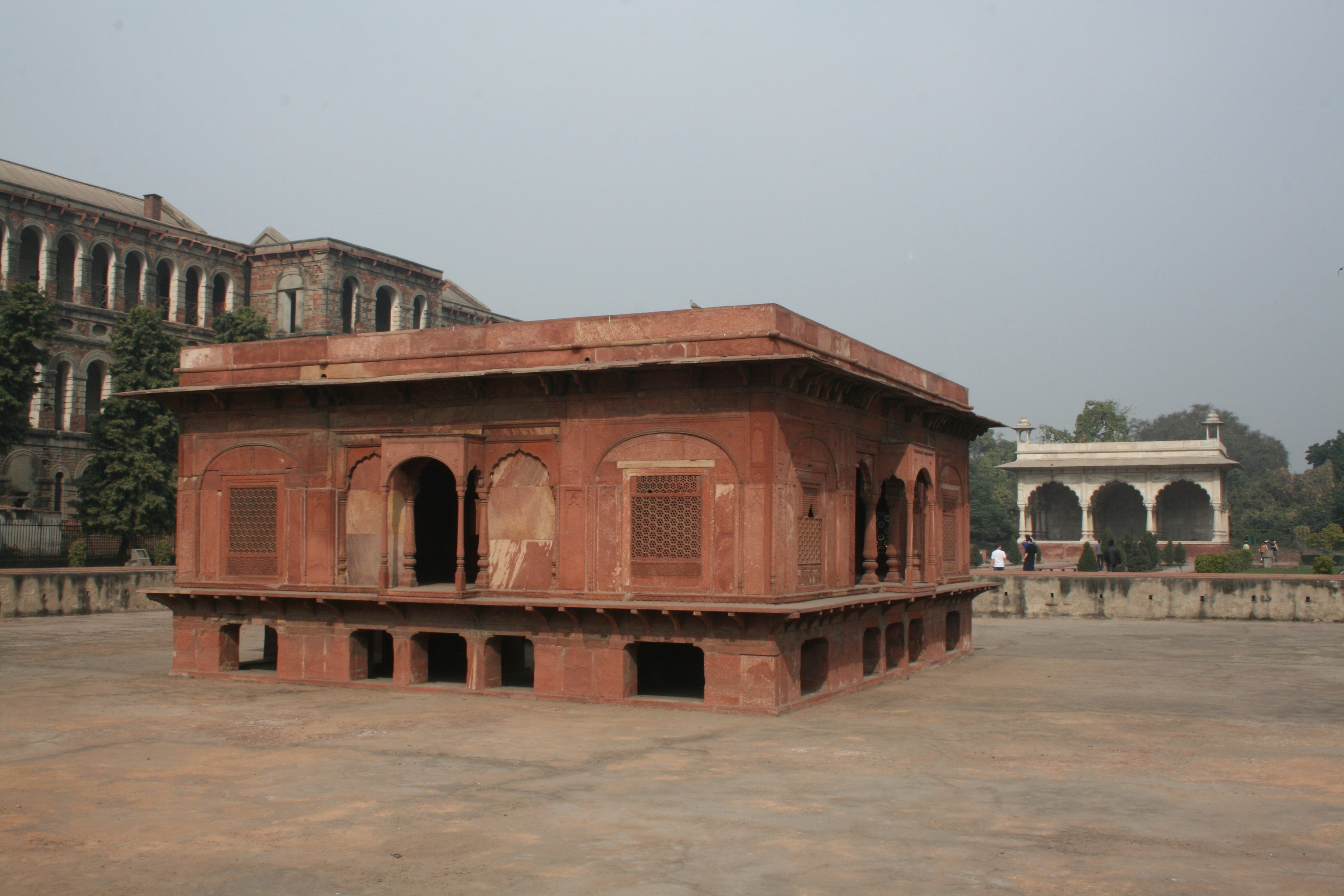 Zafar Mahal, Red Fort, Delhi, India